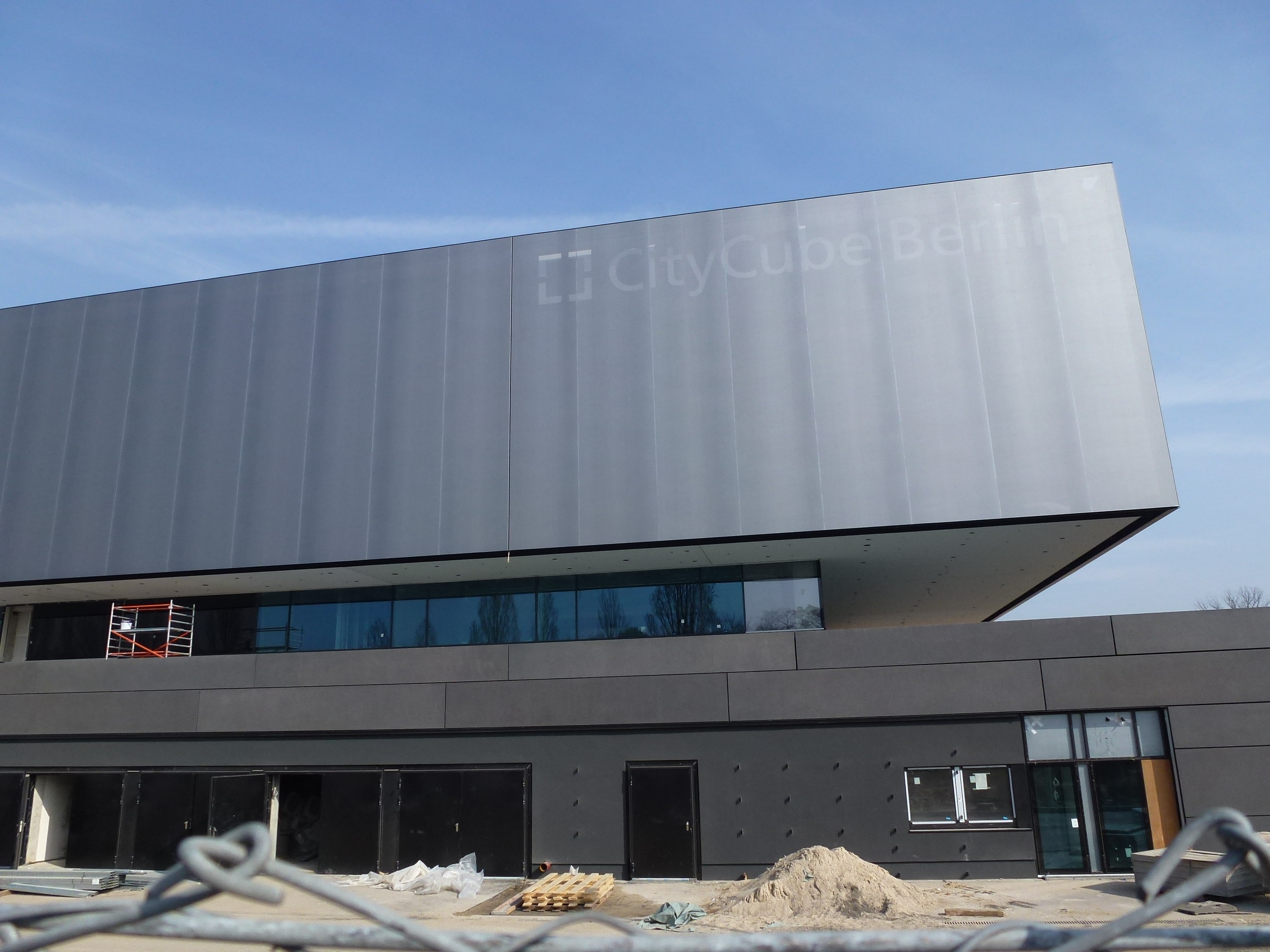 Berlin-Westend CityCube